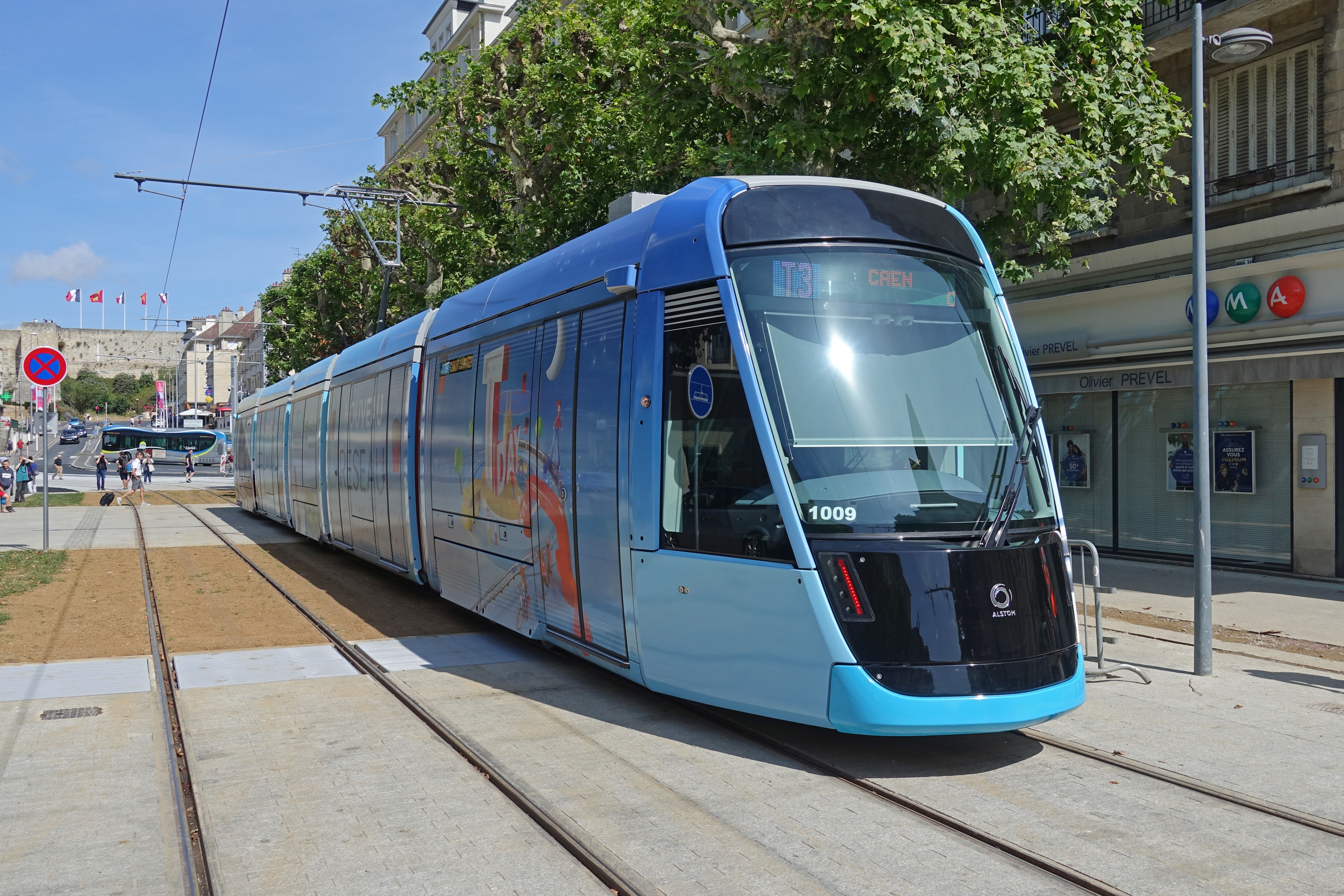 Special tram for the opening ceremony of Caen tramway on July 27, 2019.